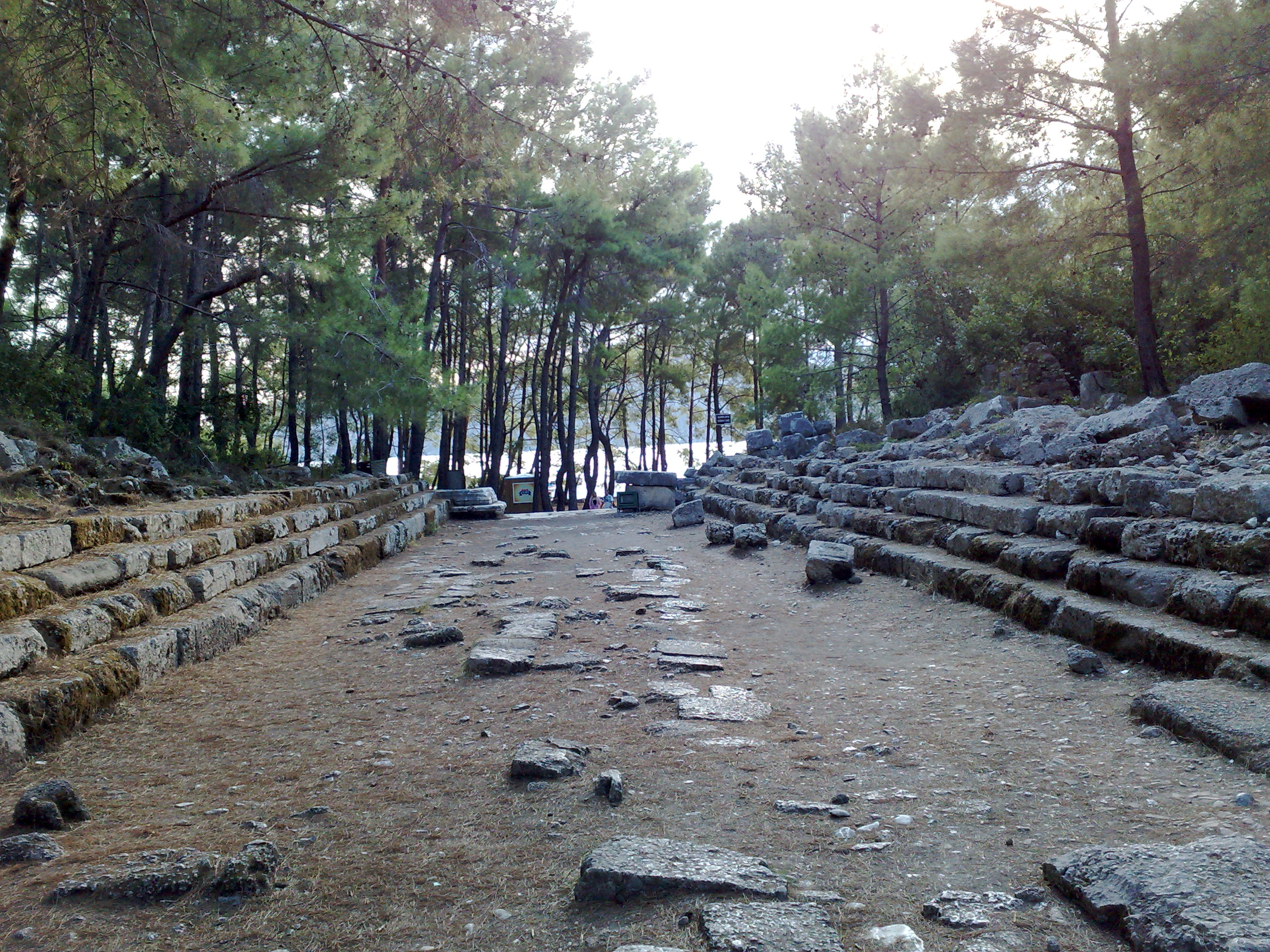 Phaselis, main street with hadrian's gate